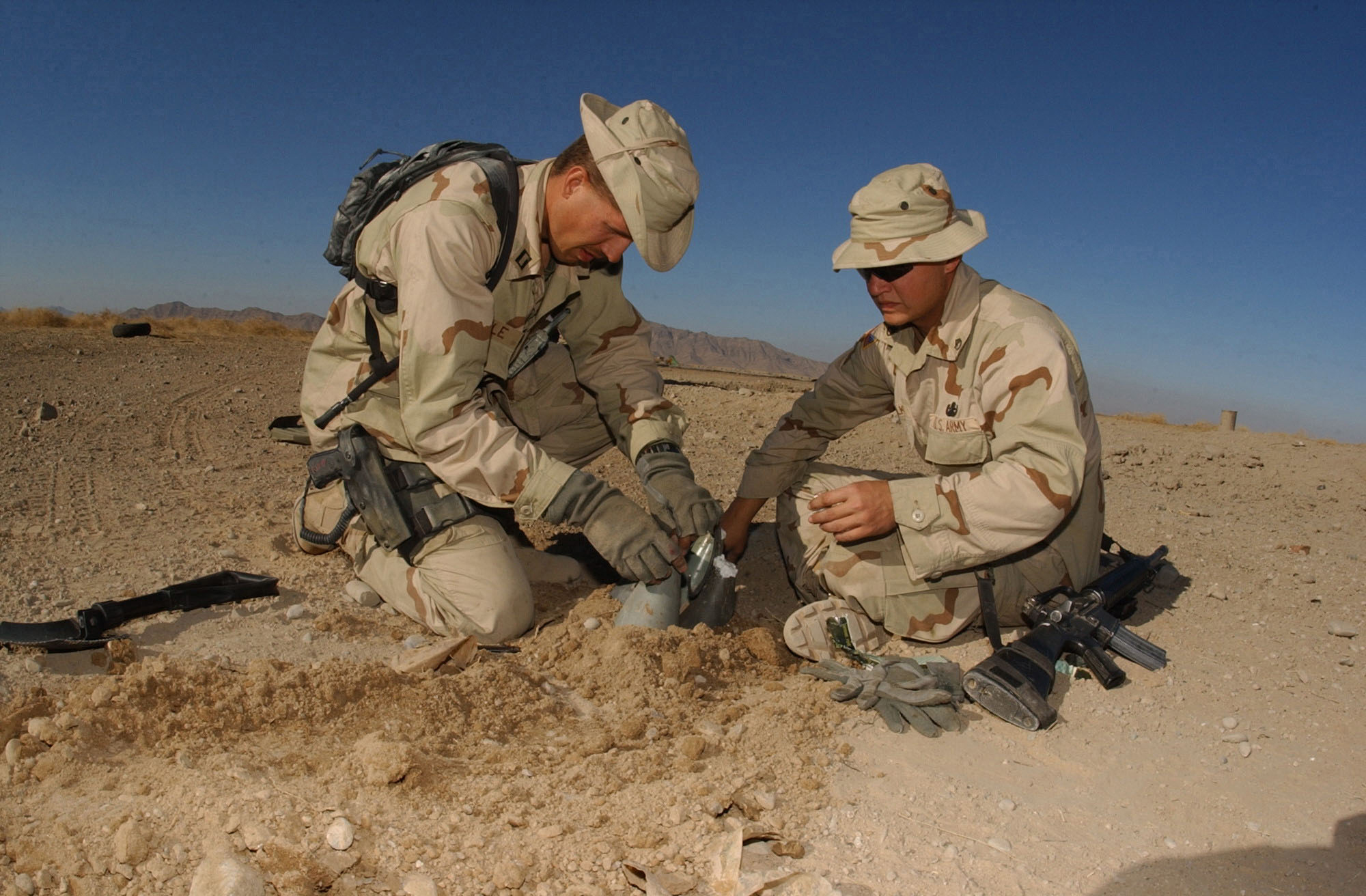 Kandahar, Afghanistan (Dec. 23, 2001) -- U.S. Navy lieutenant Mike Runkle of Virginia Beach, Va., assigned to Explosive Ordnance Disposal, Mobile Unit Two, Detachment-18 (left), and U.S. Army staff sergeant Ben Walker (right) prepare charges to blow up stockpiled ordnance left behind by fleeing Al Qaida troops. Lieutenant Runkle leads the Joint Explosive Ordnance Disposal Detachment at a forward operating base in Kandahar, Afghanistan. U.S. military EOD personnel are conducting missions in support of Operation Enduring Freedom.